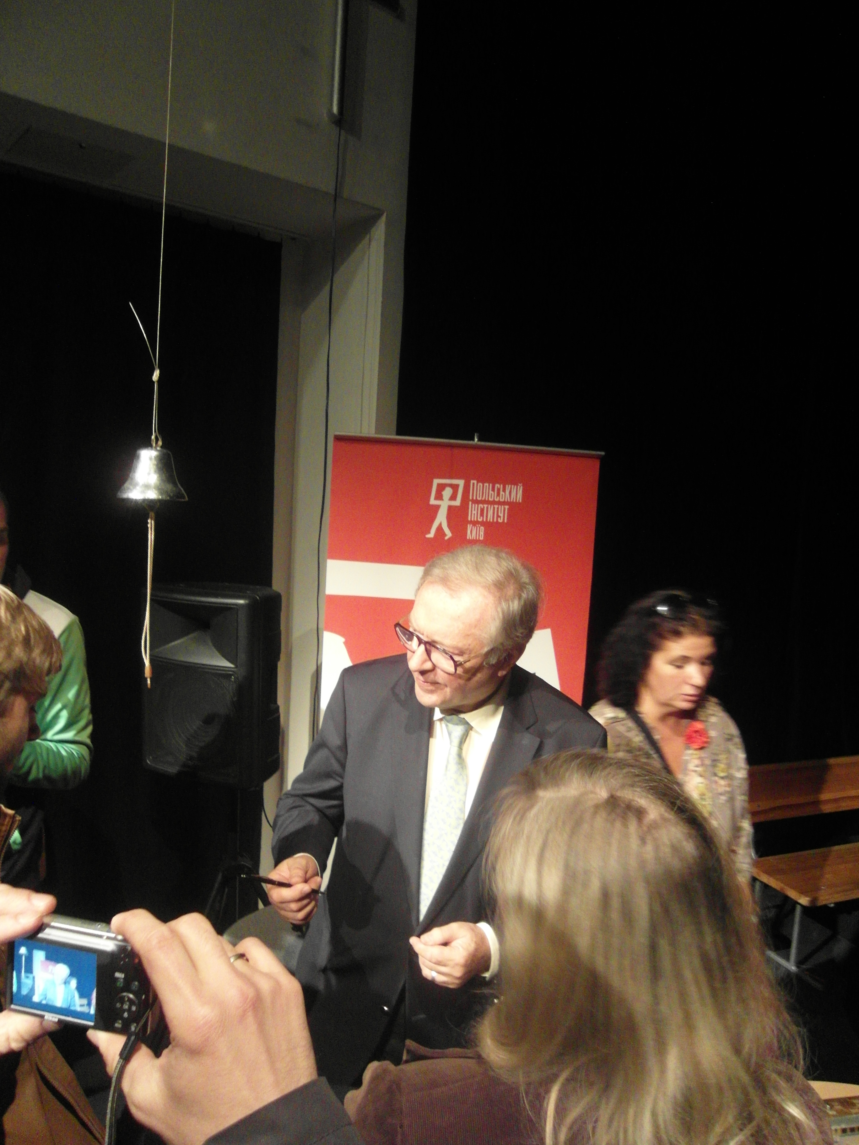 Krzysztof Zanussi on the film festival European Express, Kiev, October 2014